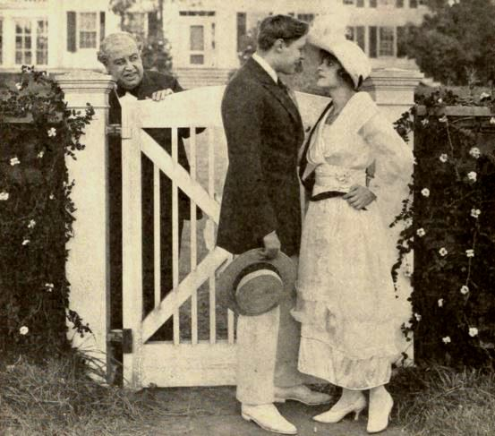 Still from the American romance film Pals First (1918) with James Lackaye, Harold Lockwood, and Rubye De Remer, on page 34 of the August 24, 1918 Exhibitors Herald.